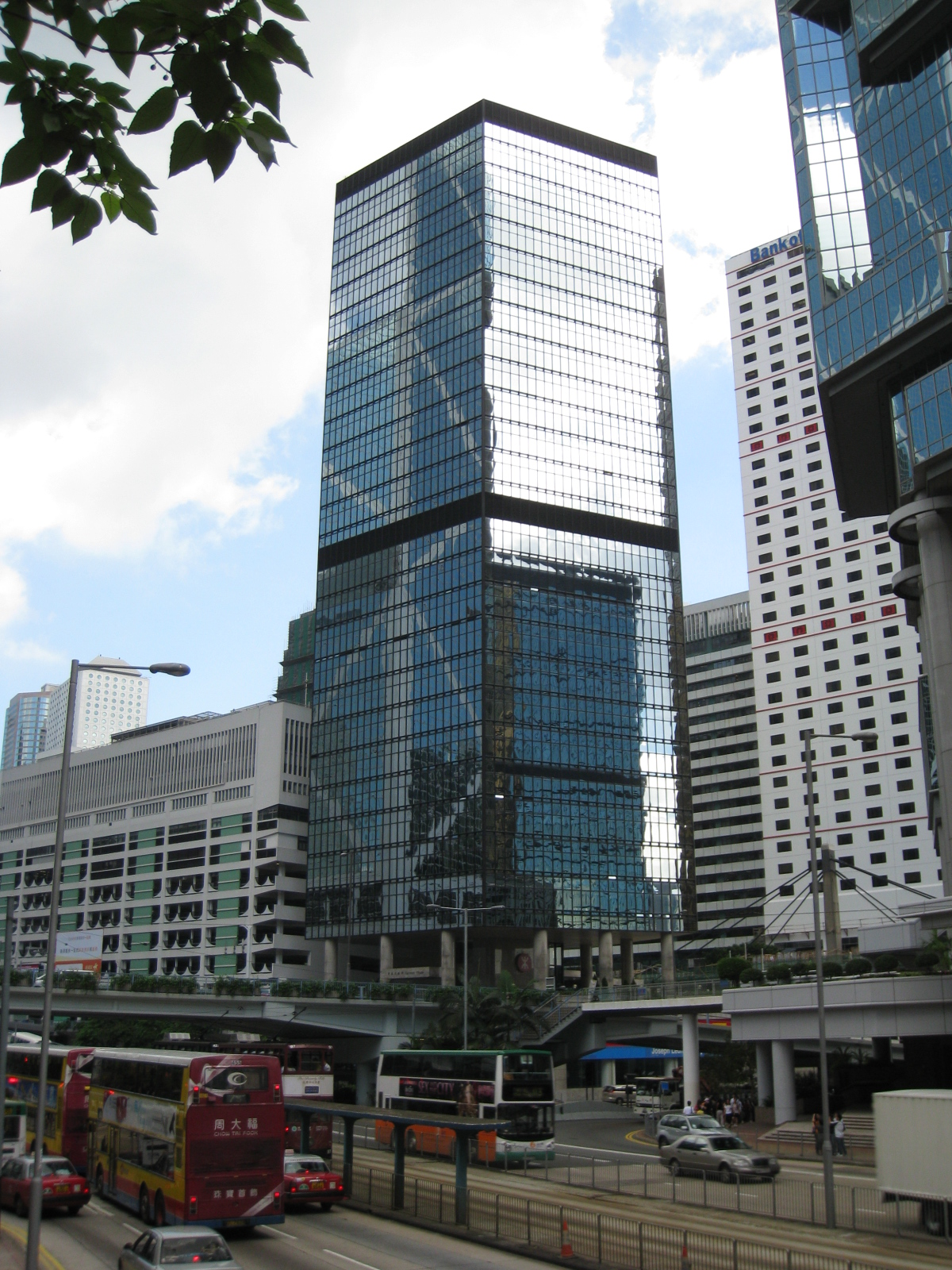 Fairmount House 東昌大廈